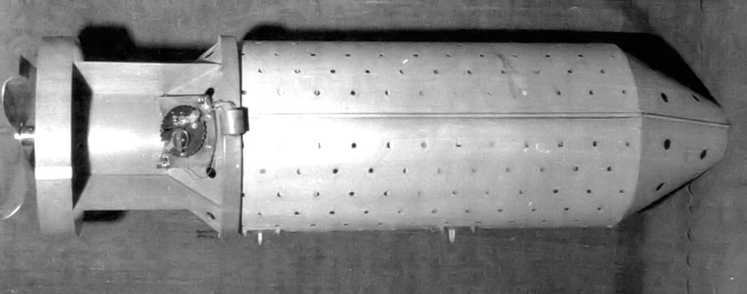 Bat-bomb canister later used to house the hibernating bats. Ideally, the canister would be dropped from high altitude over the target area, and as the bomb fell (slowed by a parachute), the bats would warm up and awaken. At 1,000 ft. altitude, the bomb would open and over a thousand bats, each carrying a tiny time-delayed napalm incendiary device, would fly in a 20-40 mile radius and roost in flammable wooden Japanese buildings. The napalm devices would ignite simultaneously, and thousands of small fires would flare up at once